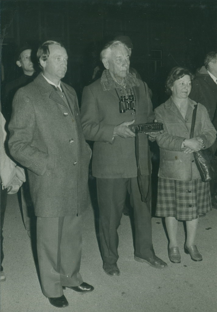 With his second wife Margit in Austria